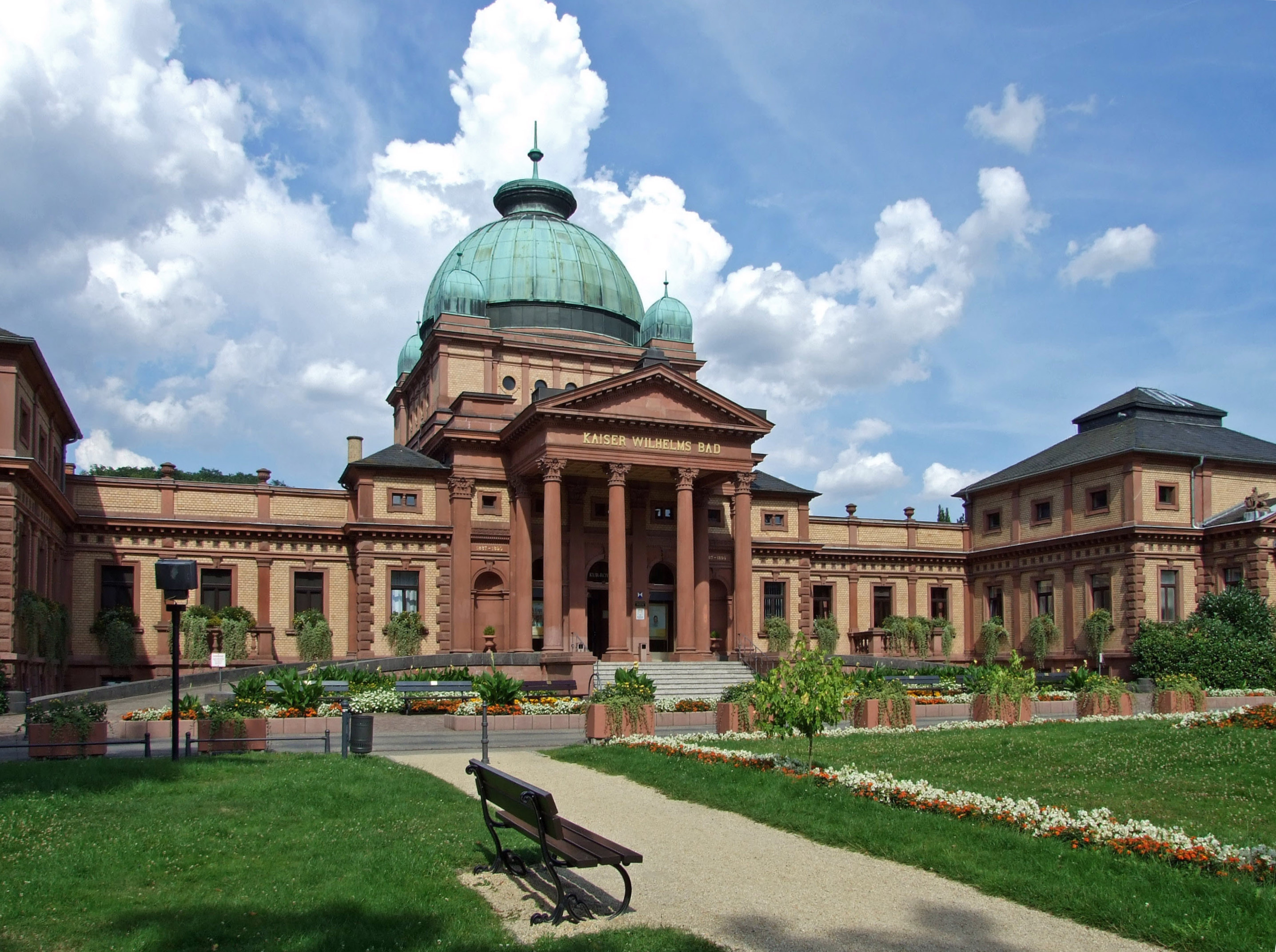 The “Kaiser Wilhelms Bad” in the "Kurpark" of Bad Homburg, Hesse, Germany